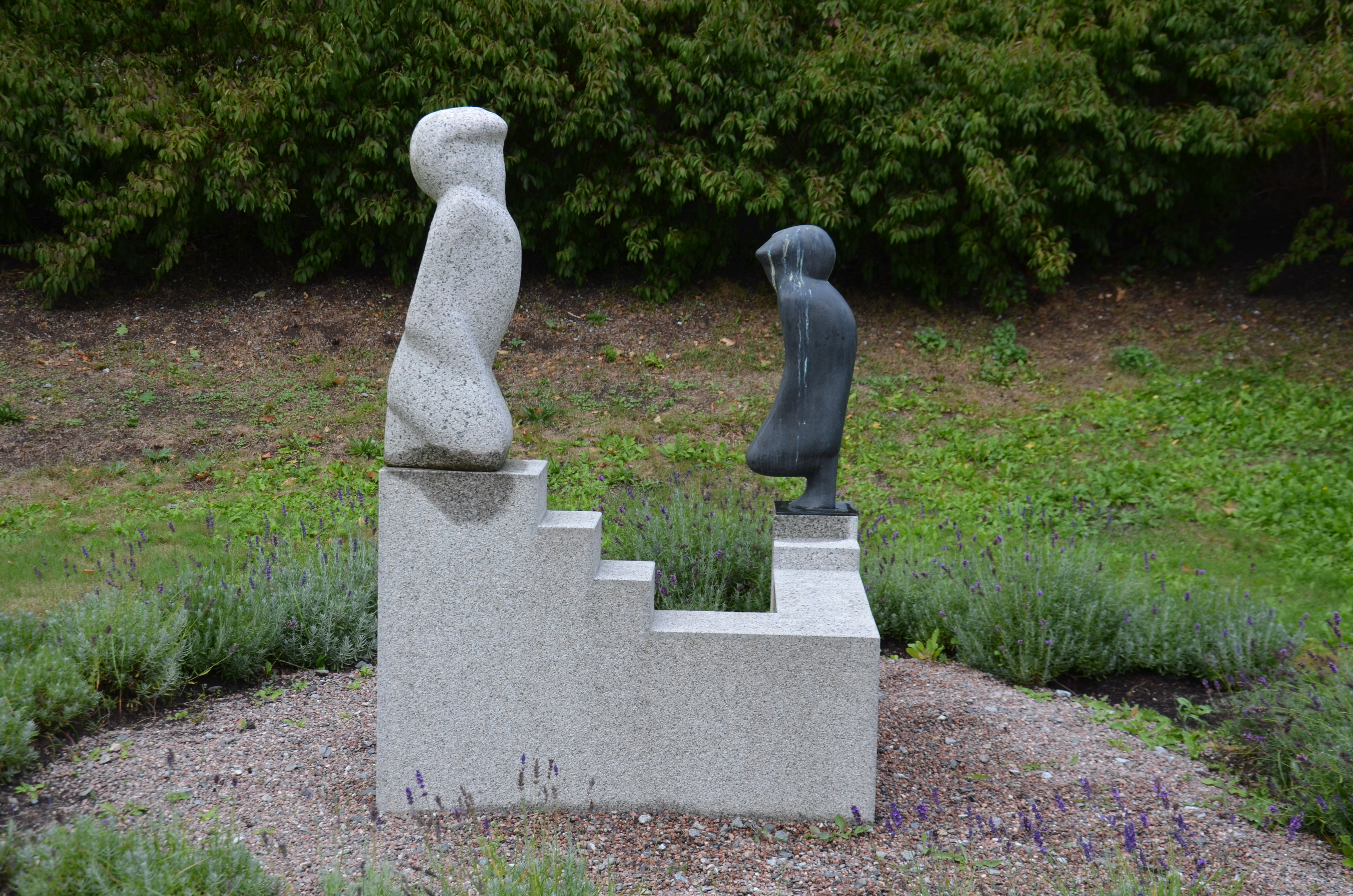 Skulptur av Kajsa Mattas på Tallbackens vård- och omsorgshus vid Blackebergsbacken i Blackeberg